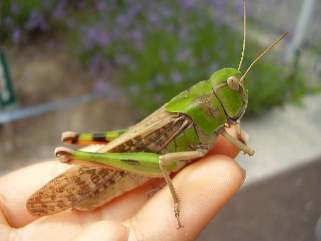 Japanese name: Tonosamabatta